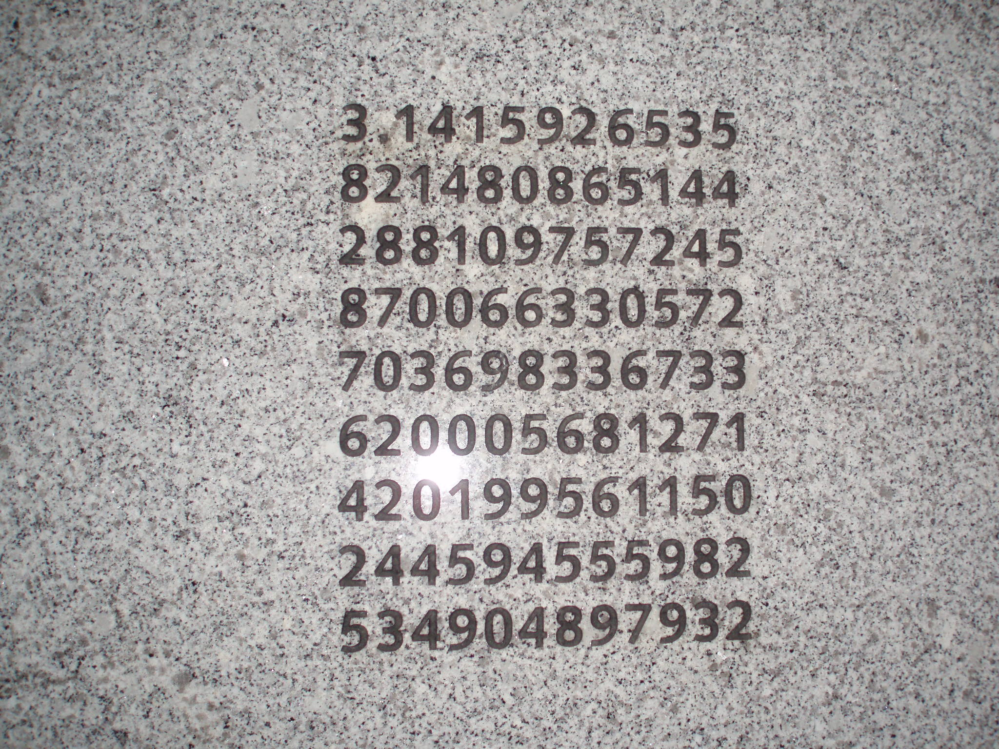 Wrong value of pi engraved at the Washington Park (MAX station), Portland, Oregon. The digits displayed are digits 1 to 10, 101 to 110, 201 to 210 and so on. 3.1415926535 821480865144 288109757245 870066330572 703698336733 620005681271 420199561150 244594555982 534904897932